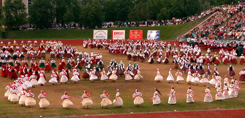 Mark A. Petersen (MAPix), Estonian folk dancing, eesti tantsupidu, 2004.